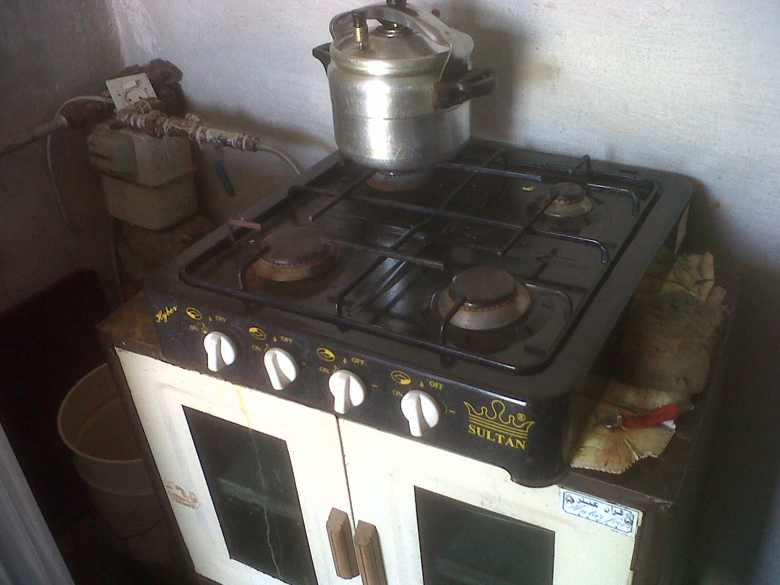 Source: M. Wauthelet